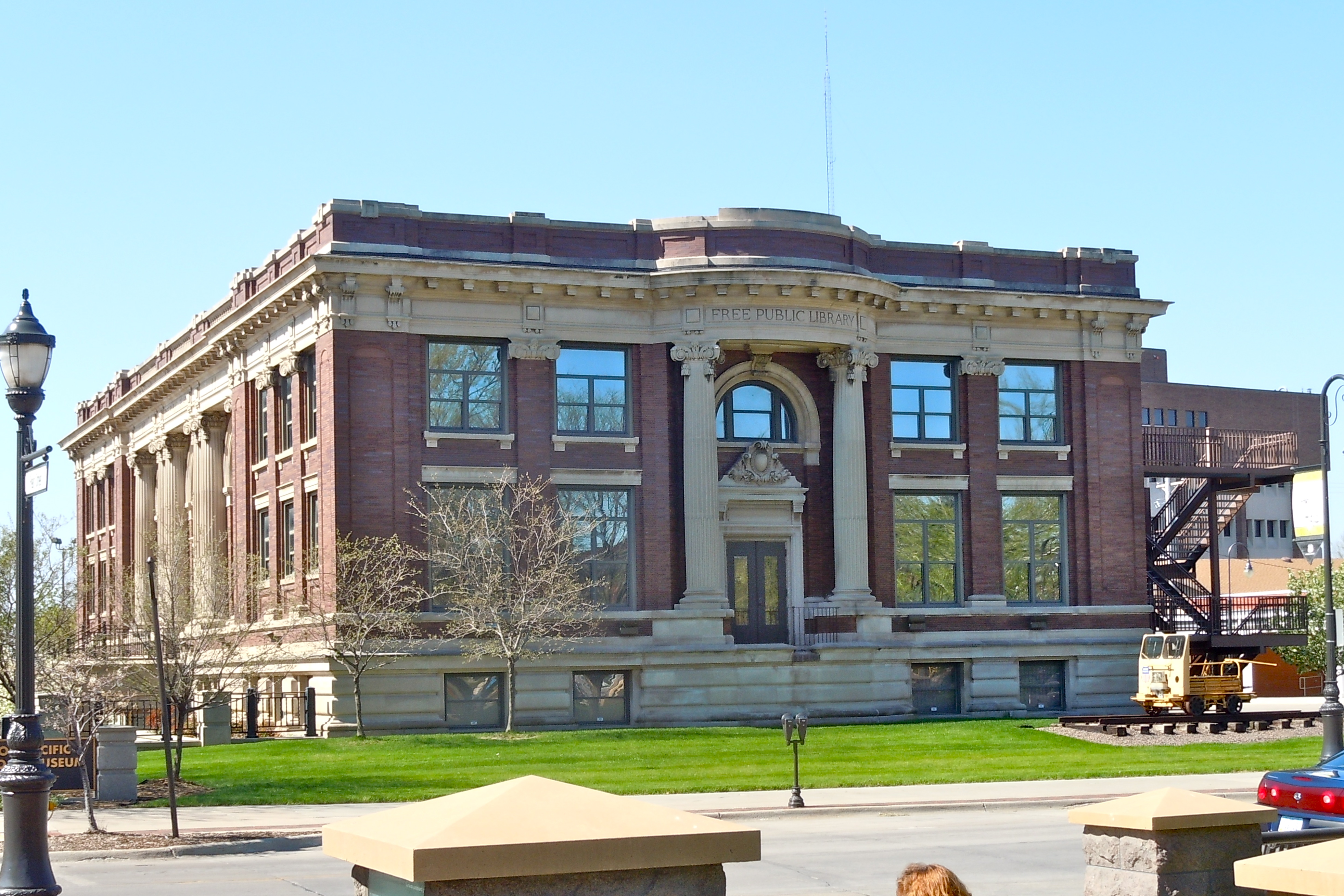 Union Pacific Railroad Museum, formerly Council Bluffs Free Public Library on the NRHP since January 27, 1999. At 200 Pearl St., Council Bluffs, Iowa